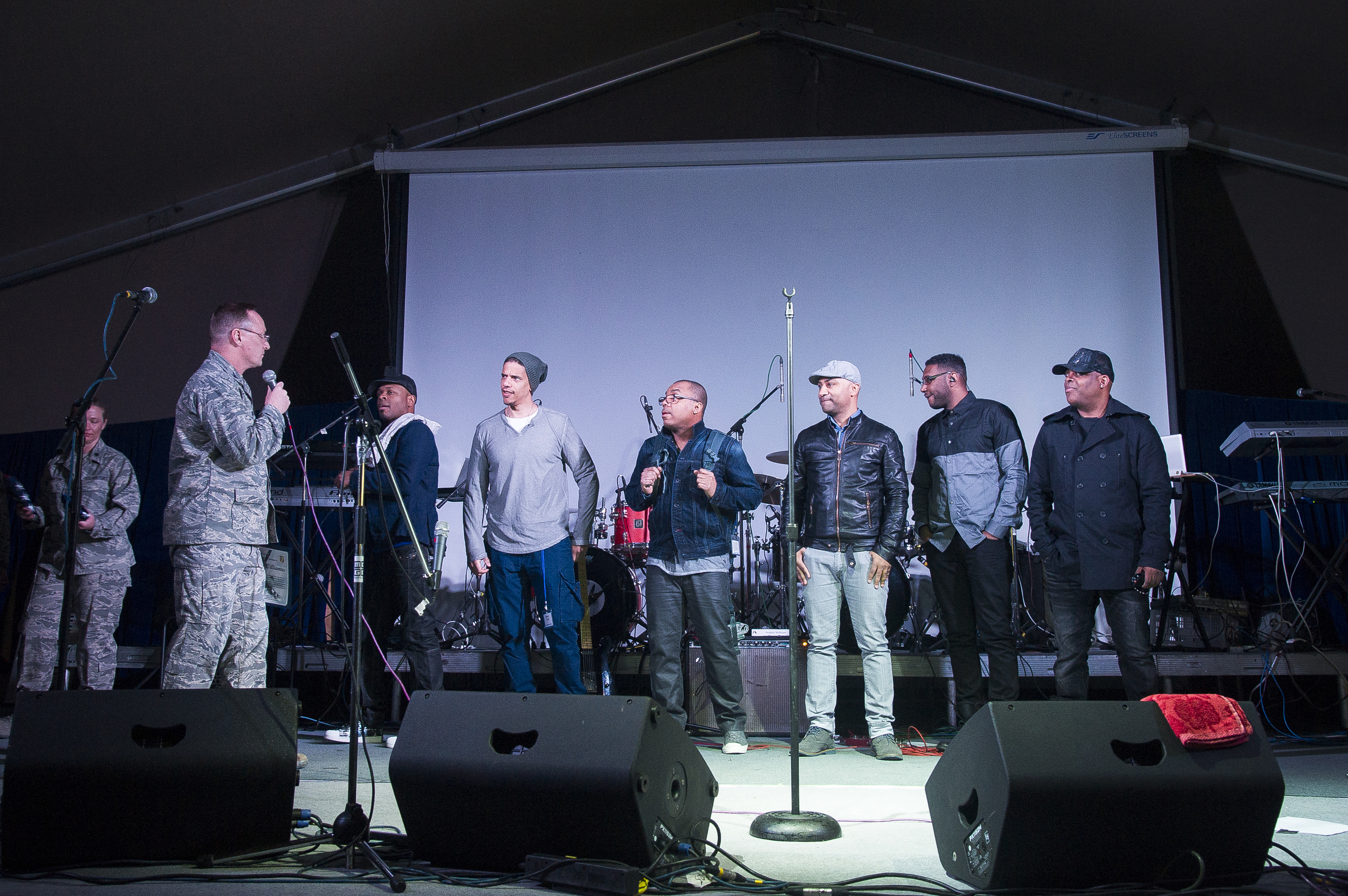 Col. John Vaughn, 376th Air Expeditionary Wing vice commander, announces the R & B band Mint Condition at Transit Center at Manas, Kyrgyzstan, Feb. 18, 2014. Mint Condition made a stop at the Transit Center to perform for U.S. troops while on tour